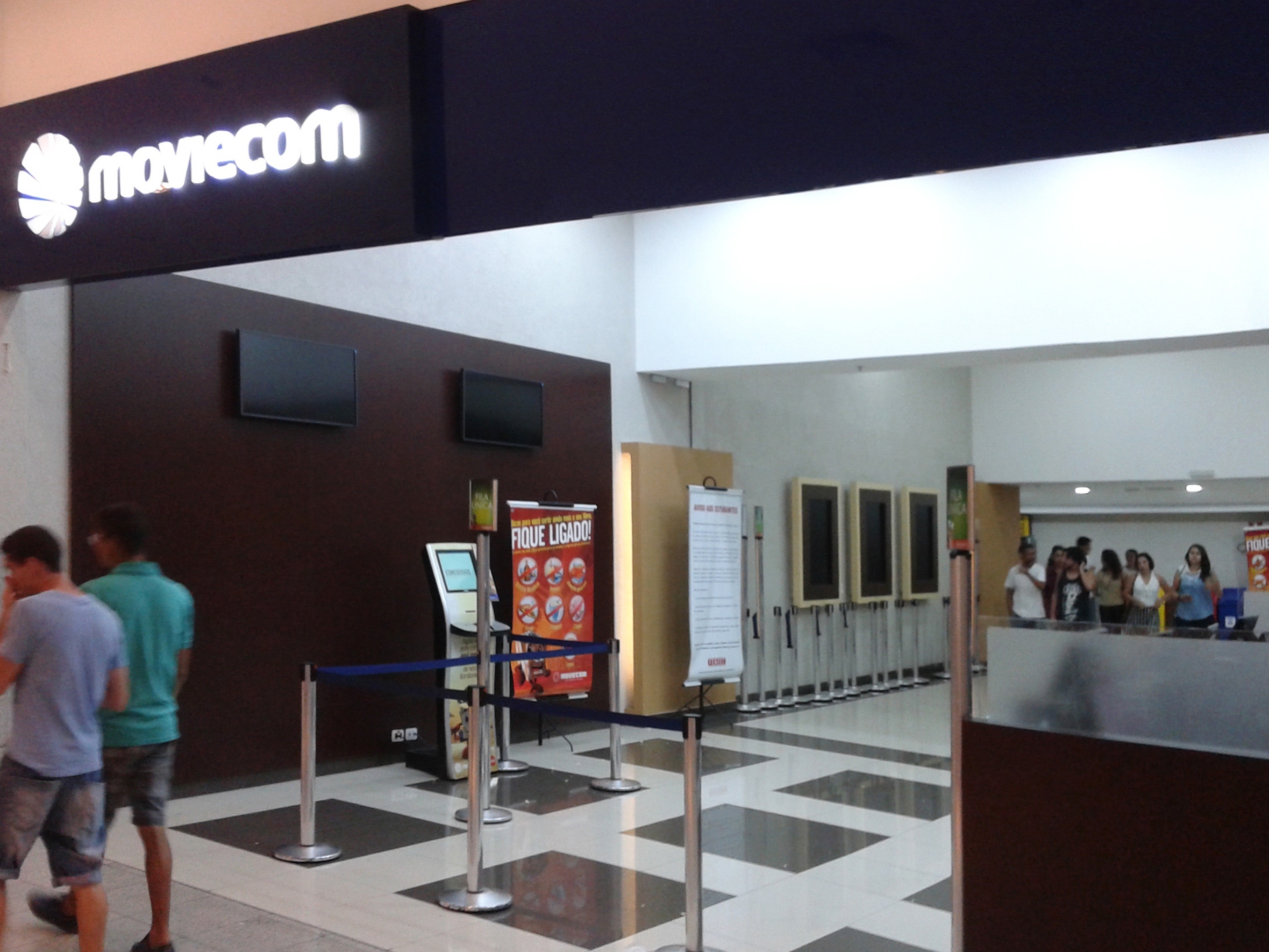 Entrance to the Moviecom cinema of the Shopping Vale do Aço, in Ipatinga, Minas Gerais, Brazil.